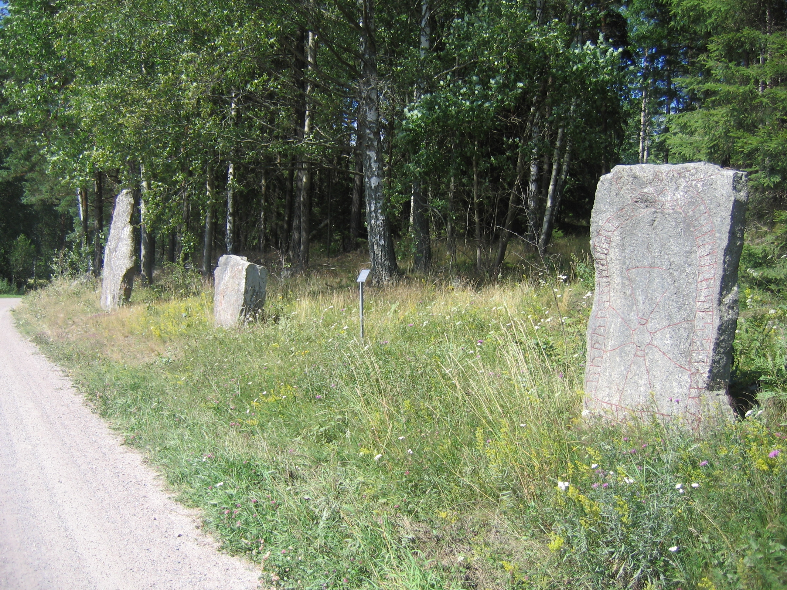 Runestones Sö 173 (center) and Sö 374 (right). The leftmost stone is a standing stone (Tystberga 103:3).